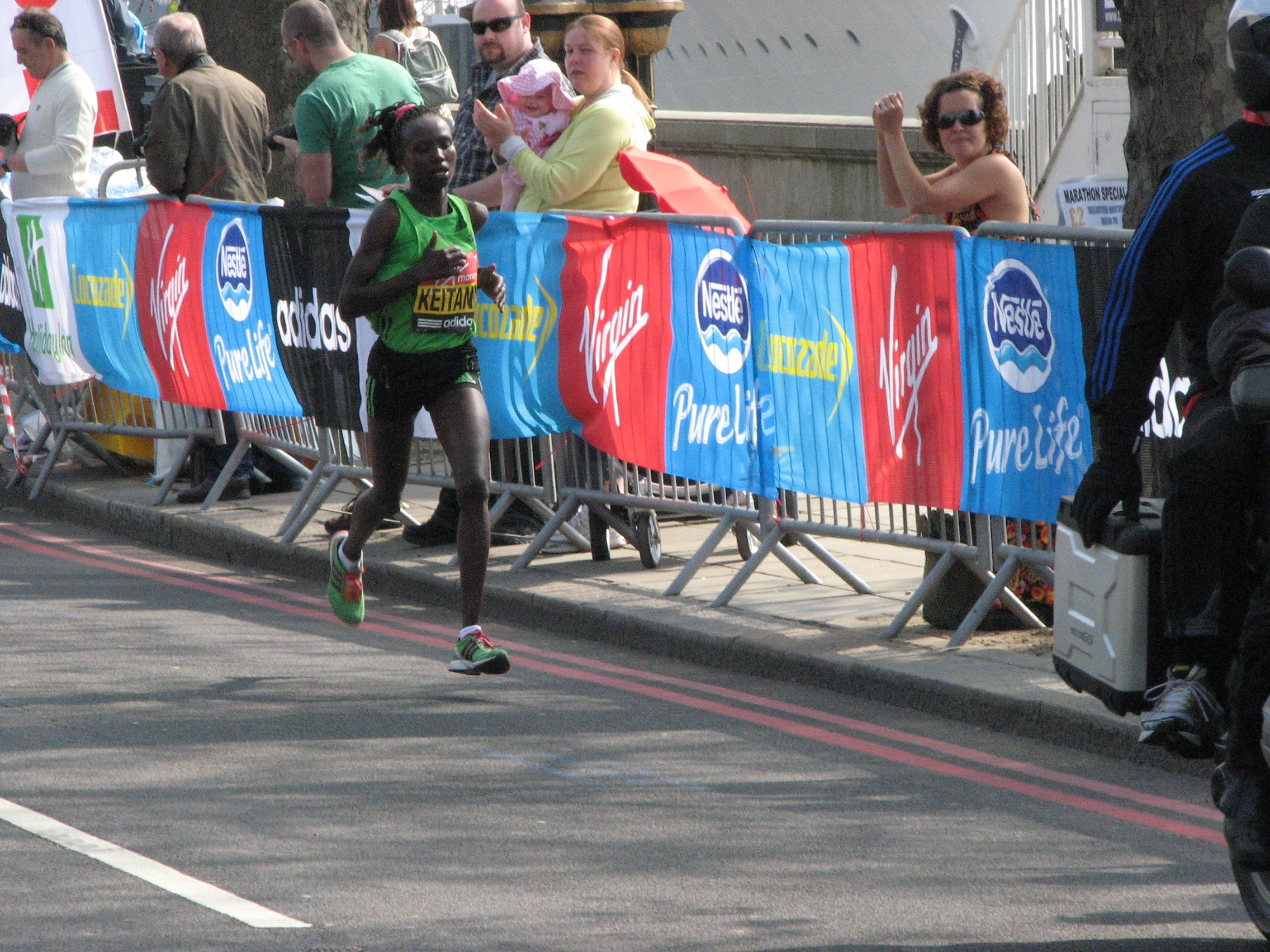 2011 London Marathon - Mary Keitany has a long lead at 24 miles, having pushed on at 15. She won in 2:19:19, fourth equal fastest in the world, a lifetime best, and in the same year as she set the world half marathon record. Virgin London Marathon, 17 April 2011. Taken from 24 and a half miles, at the (western) junction of Victoria Embankment and Temple Place, very close to the Walkabout.